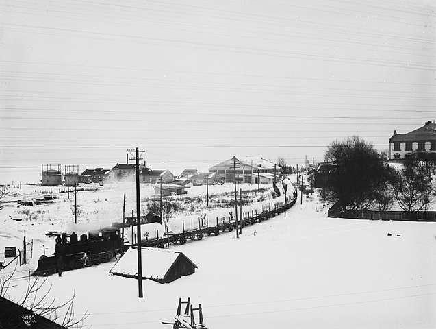 Norsk Aluminumindustri train in Holmestrand, Norway, on the Holmestrand–Vittingfoss Line